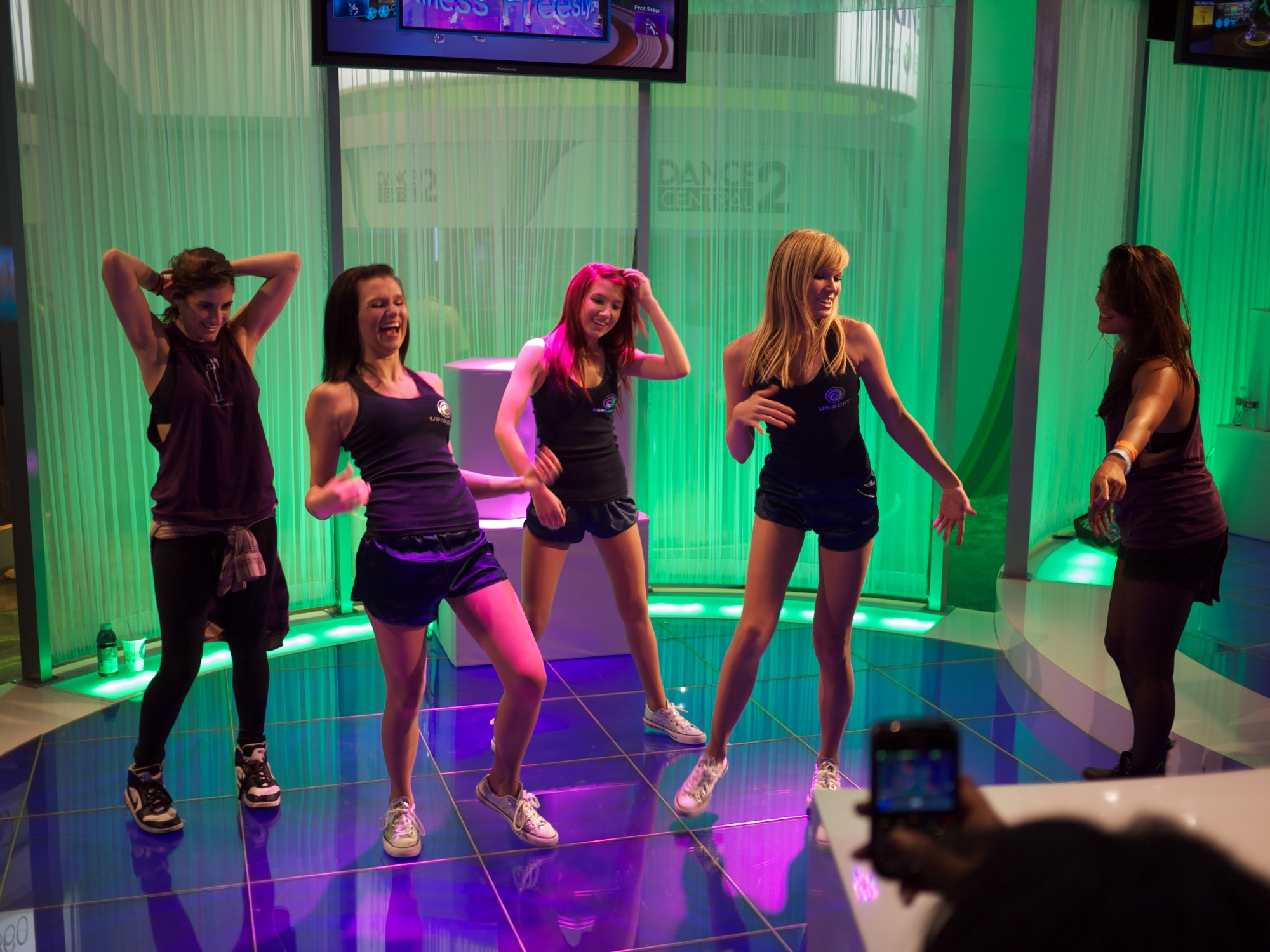 Taken on June 9, 2011 Panasonic DMC-GF1 102 Views